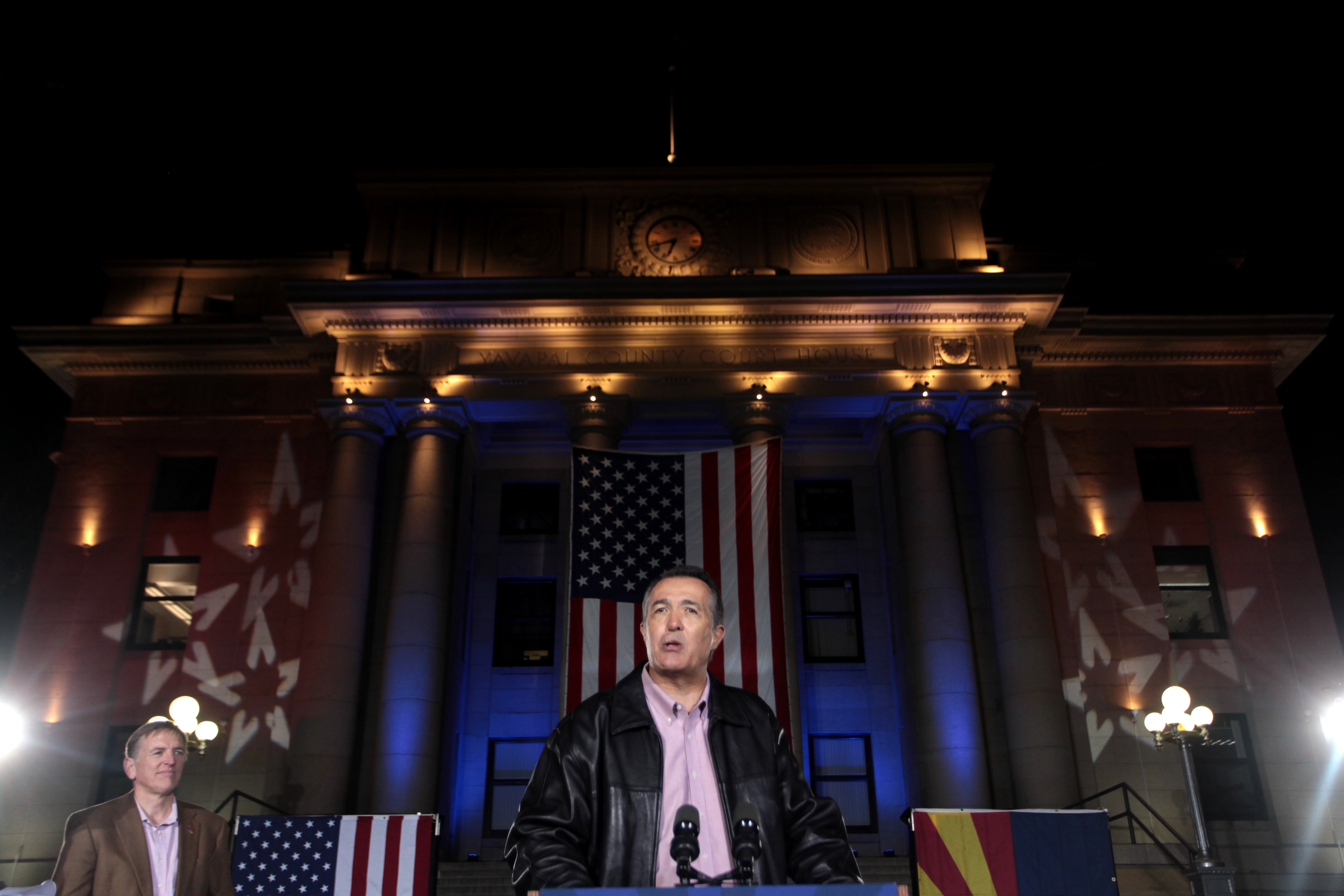 U.S. Congressmen Trent Franks and Paul Gosar speaking at a campaign rally for State Treasurer Doug Ducey at the Yavapai County Courthouse in Prescott, Arizona.